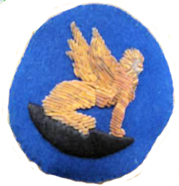 104th Observation Squadron - Emblem.